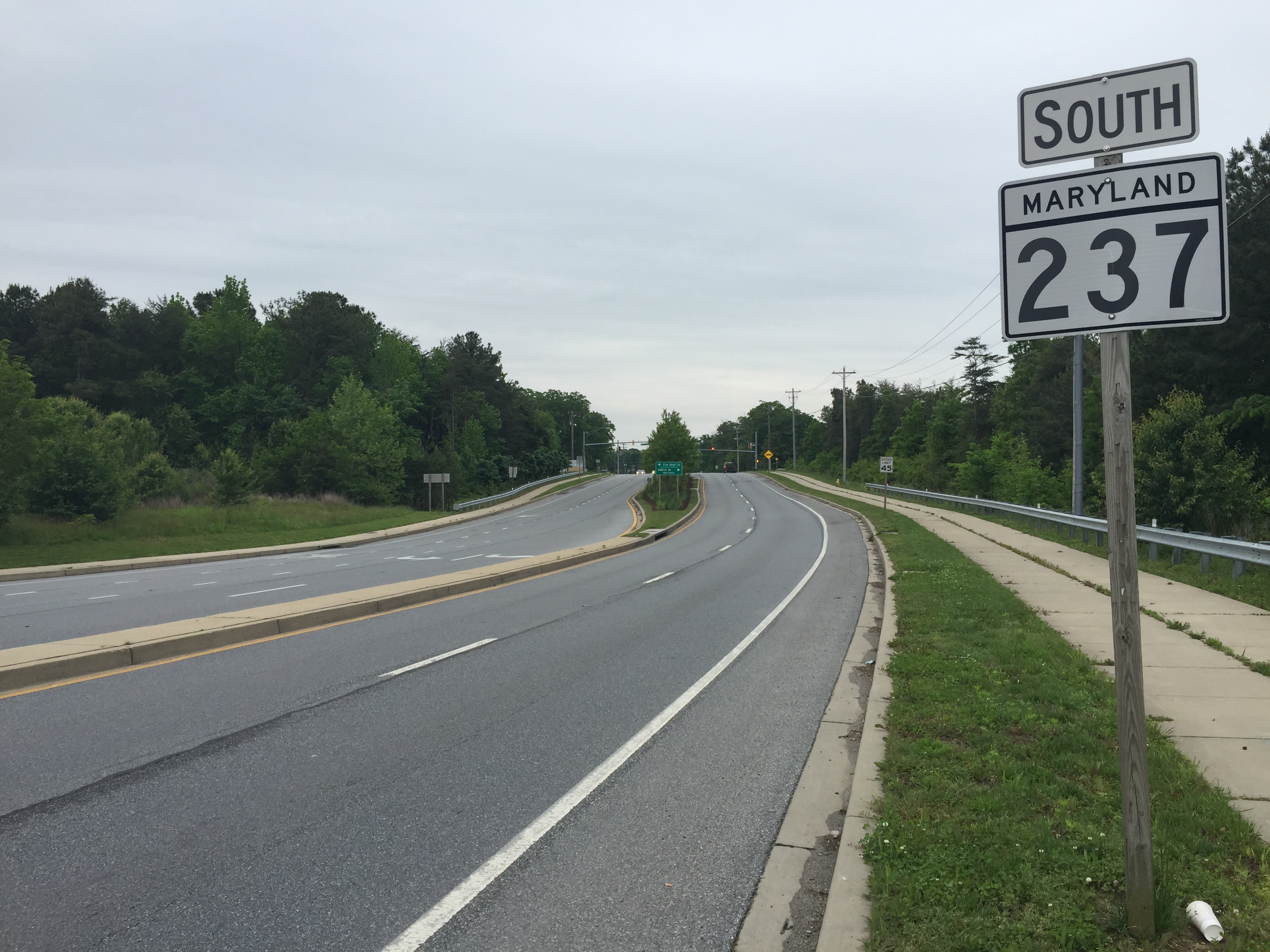 View south along Chancellors Run Road (Maryland State Route 237) near Three Notch Road (Maryland State Route 235) in California, St. Mary's County, Maryland